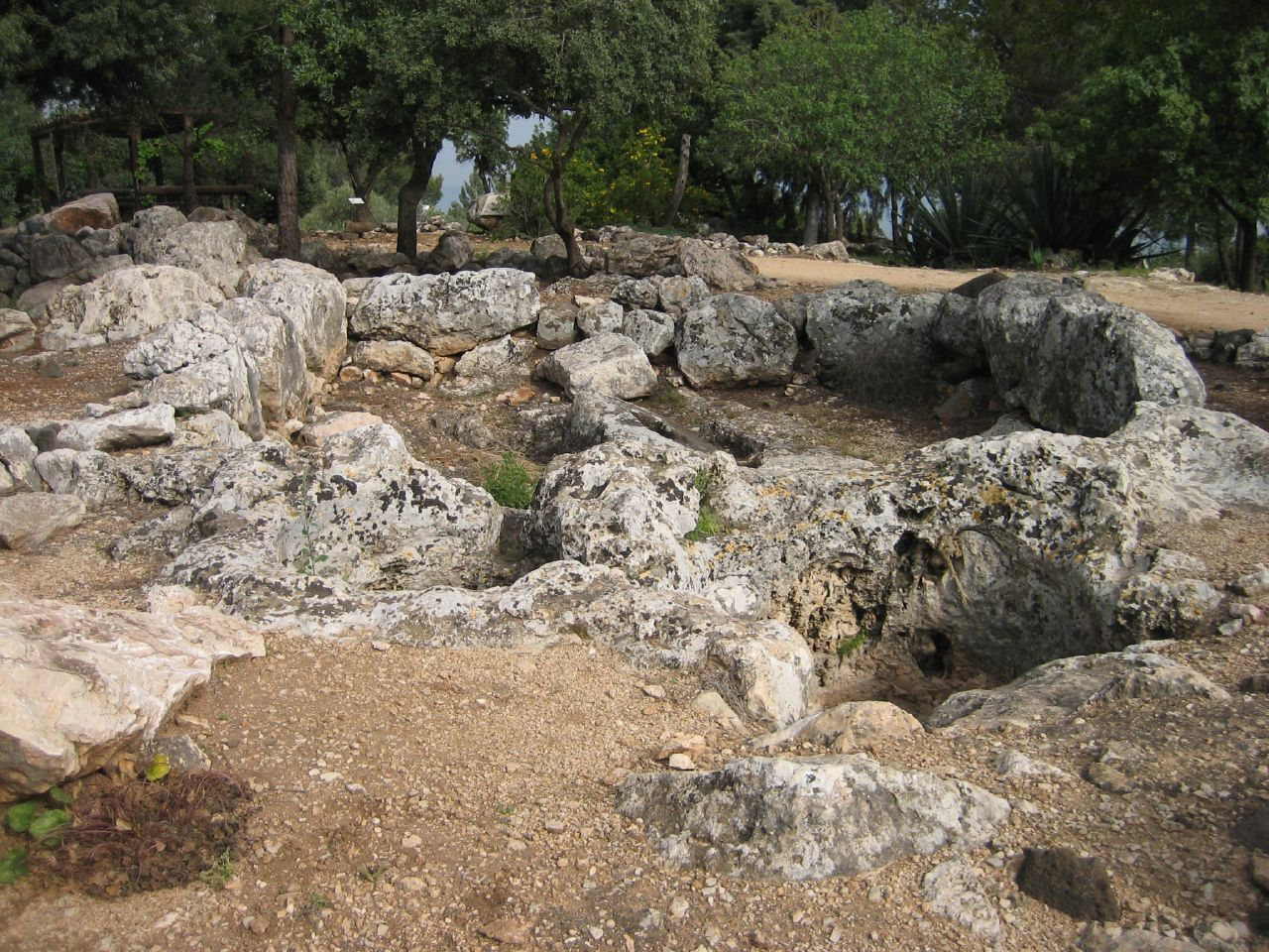 Ruins from the Talmudic period (100 - 400 CE) including this wine press.